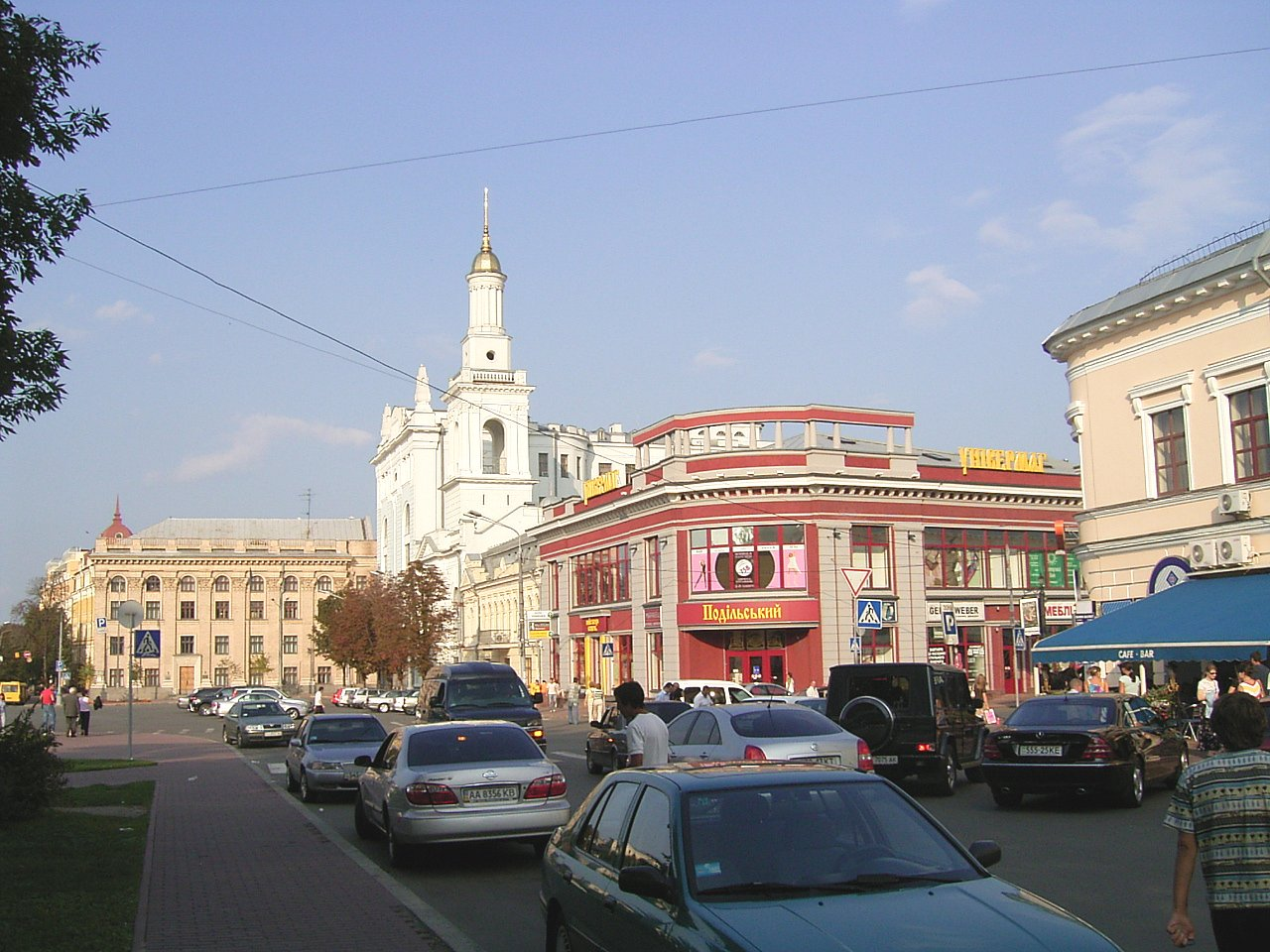 Description: Podol district, Kiev Author: Alexander Noskin Date: 8-16-2005